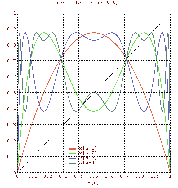 Logistic map for r=3.5